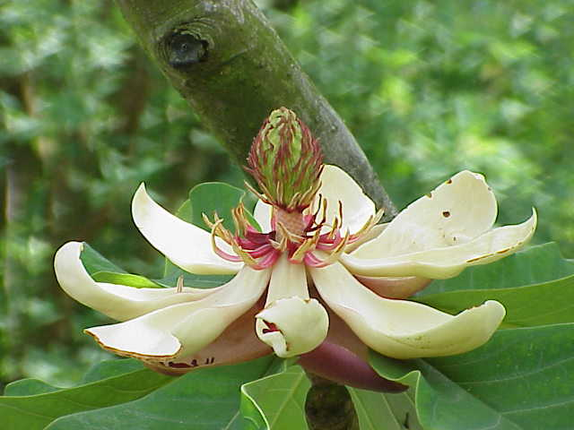 Magnolia obovata Family Magnoliaceae Image no. 2